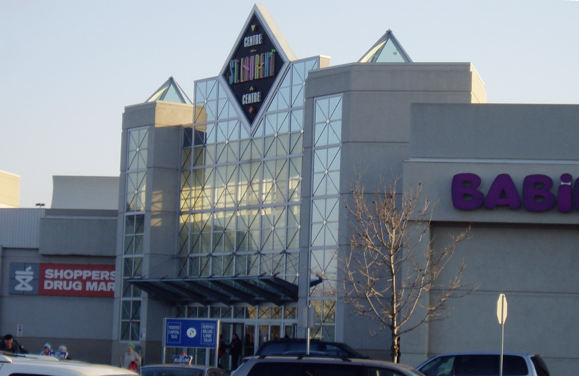 St. Laurent Shopping Centre, taken by SimonP